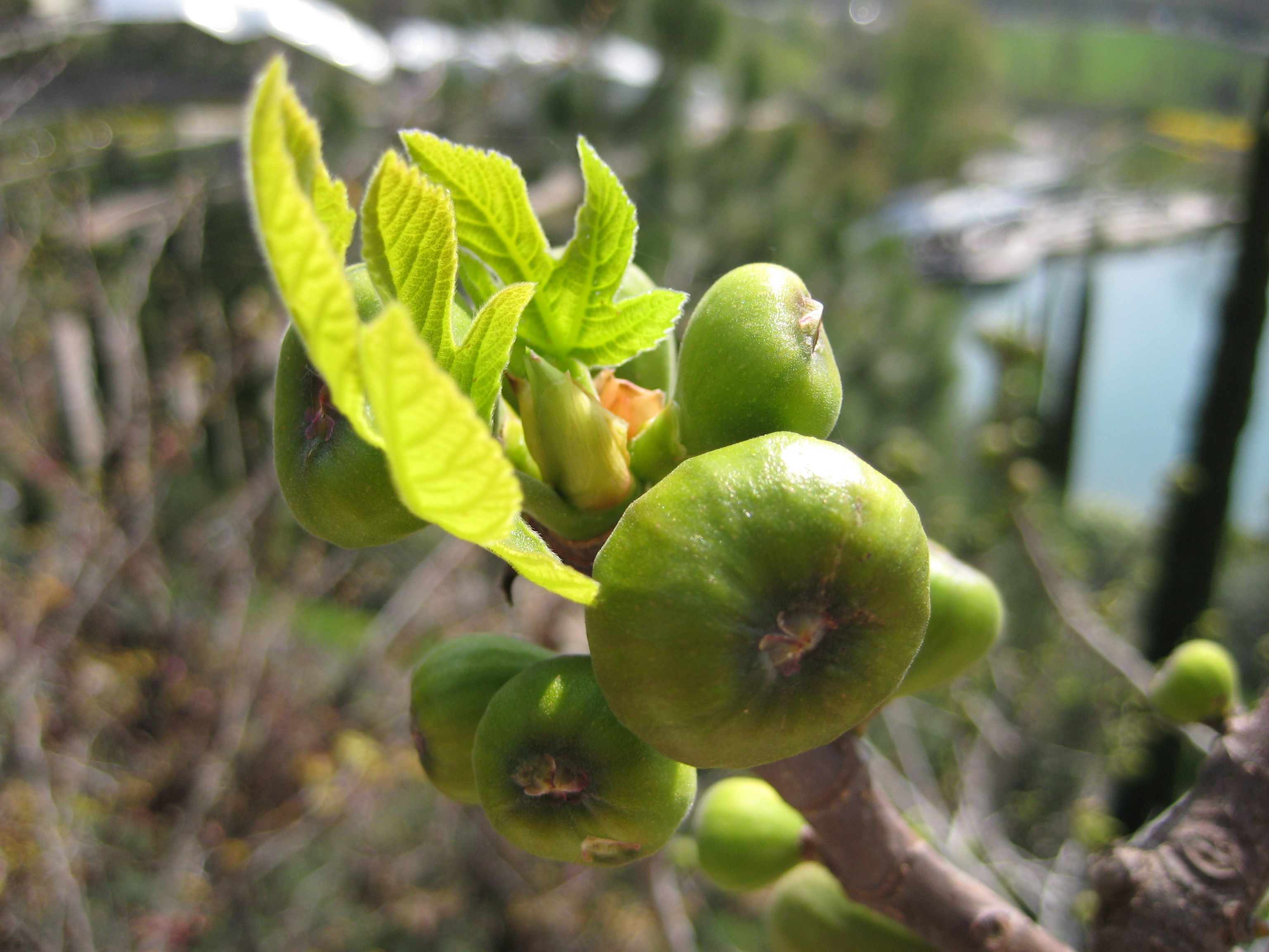 Common fig, Trauttmansdorff Castle